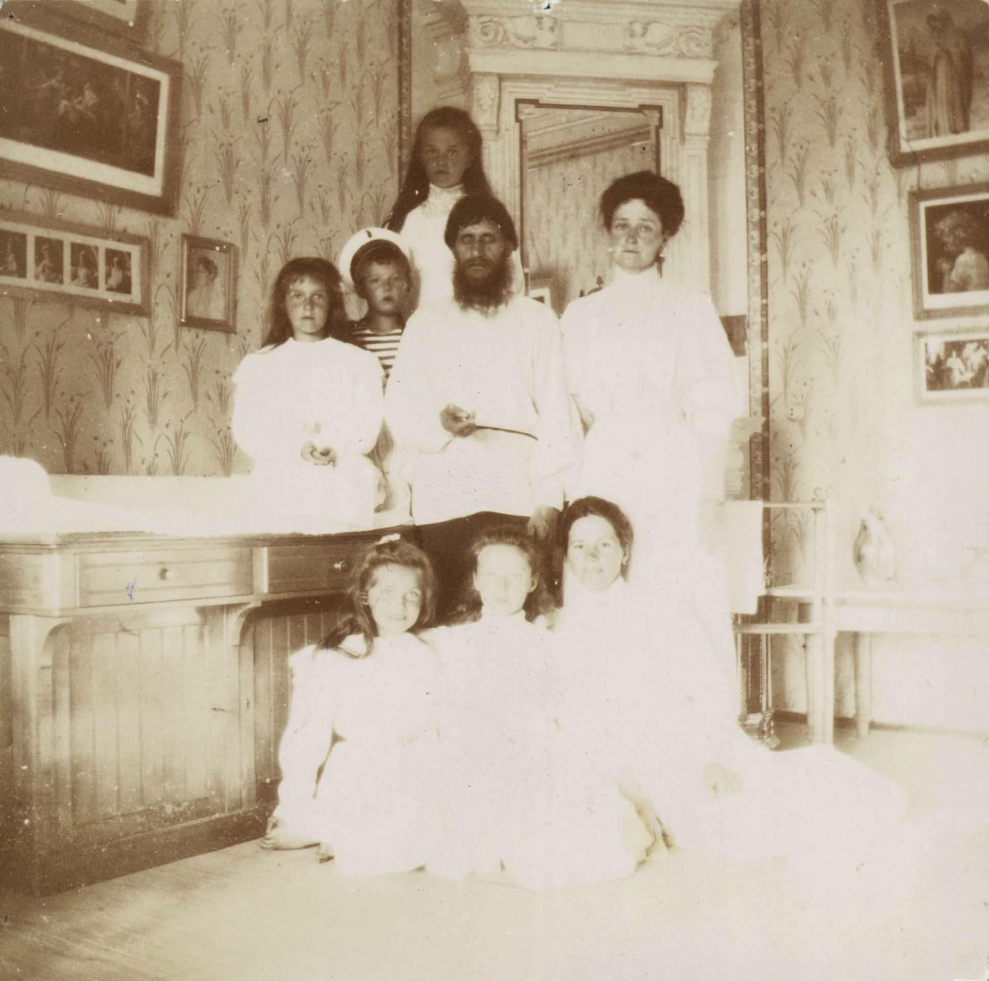 Empress Alexandra Feodorovna with Rasputin, her children and governess Maria Vishnyakova.